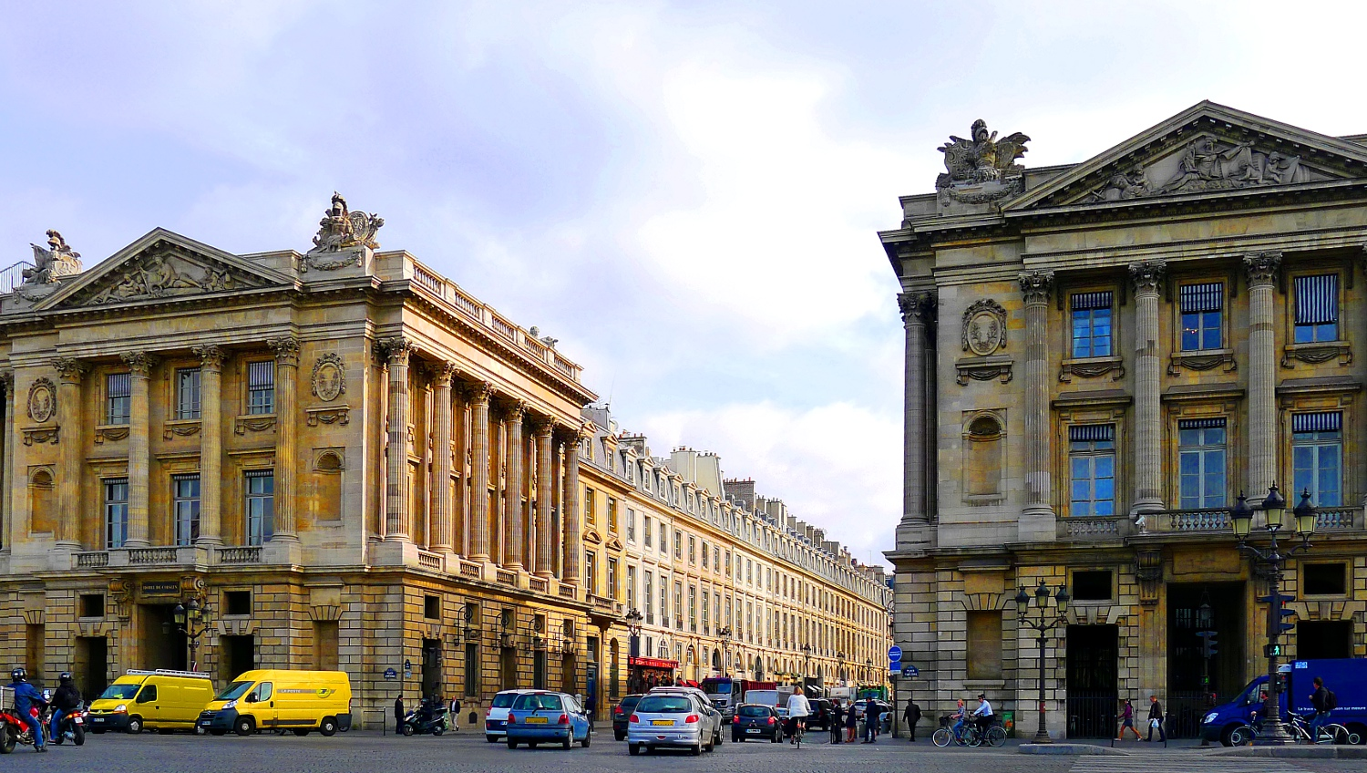 Concorde place and Royale street - Paris